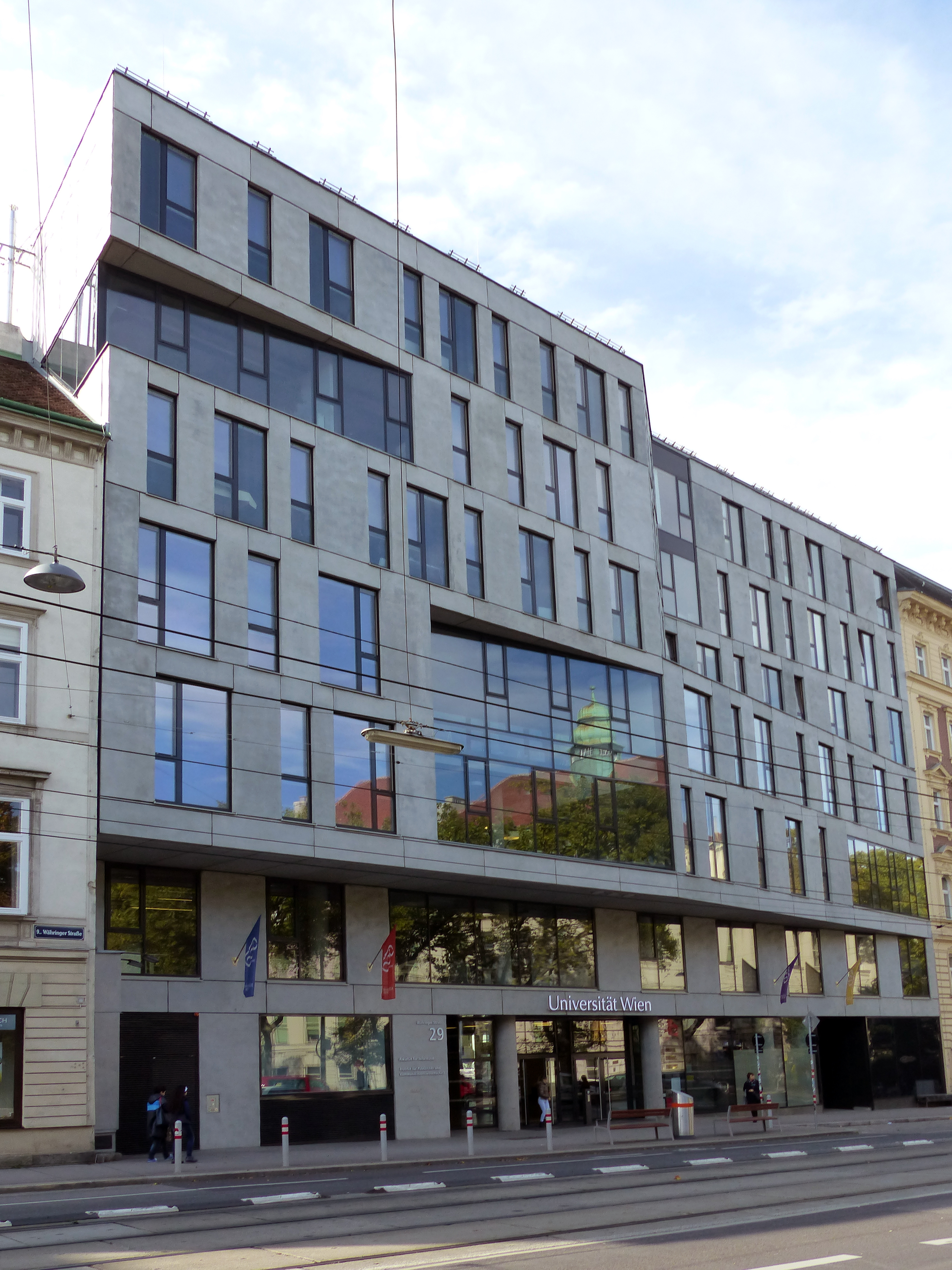 Faculty of Informatics, University of Vienna